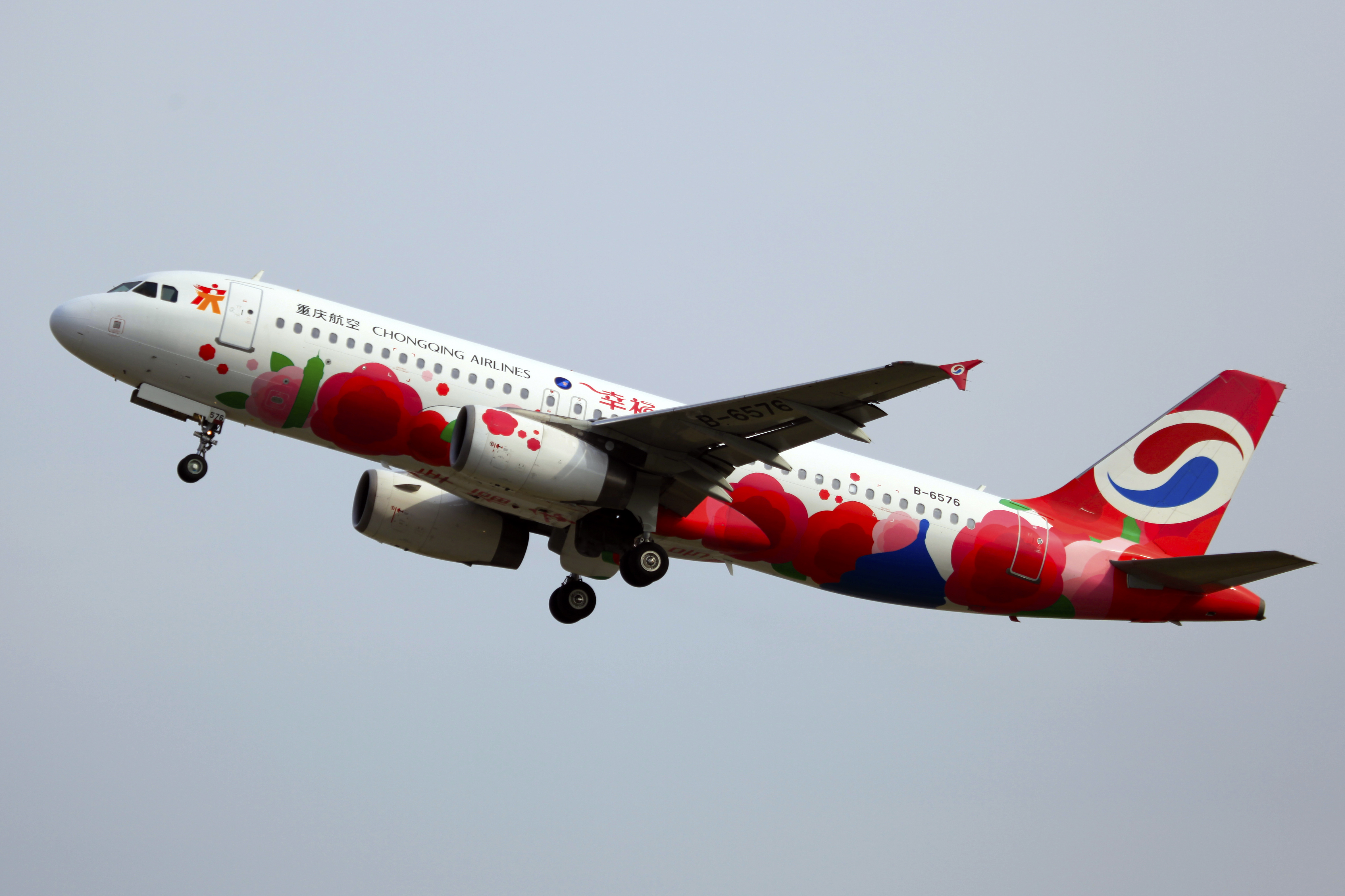 B-6576 | Chongqing Airlines | Airbus A320-232 | Happy Chongqing Livery | Guangzhou Baiyun International Airport [CAN]